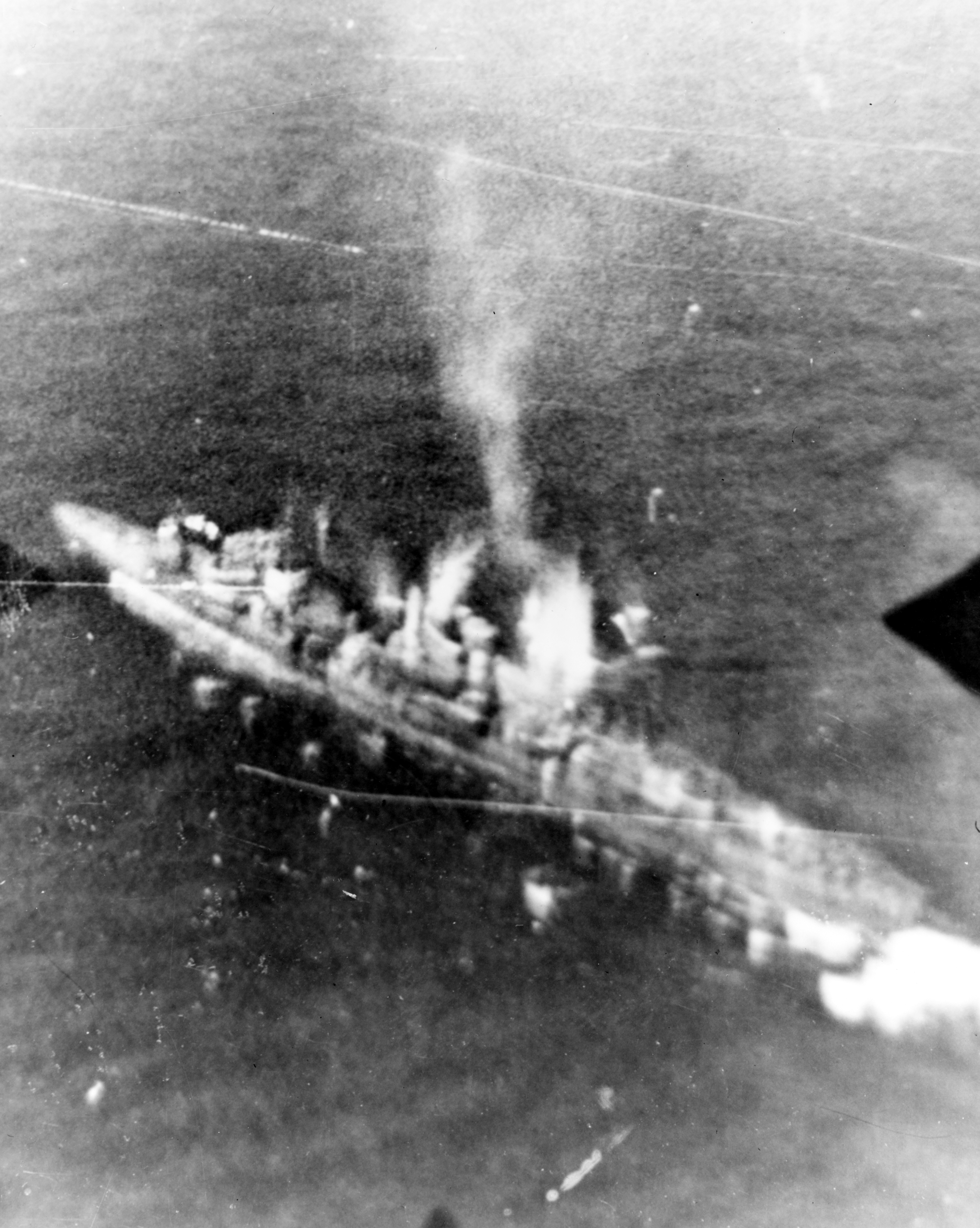 Battle of Leyte Gulf, 26 October 1944: Gun camera photo of a Japanese warship under air attack, south of Masbate, Philippines, on 26 October 1944. The photo was taken by an aircraft from the U.S. Navy escort carrier USS Sangamon (CVE-26). Note this may be possibly the destroyer Uranami or the Nagara-class cruiser Kinu, both sunk on this day.